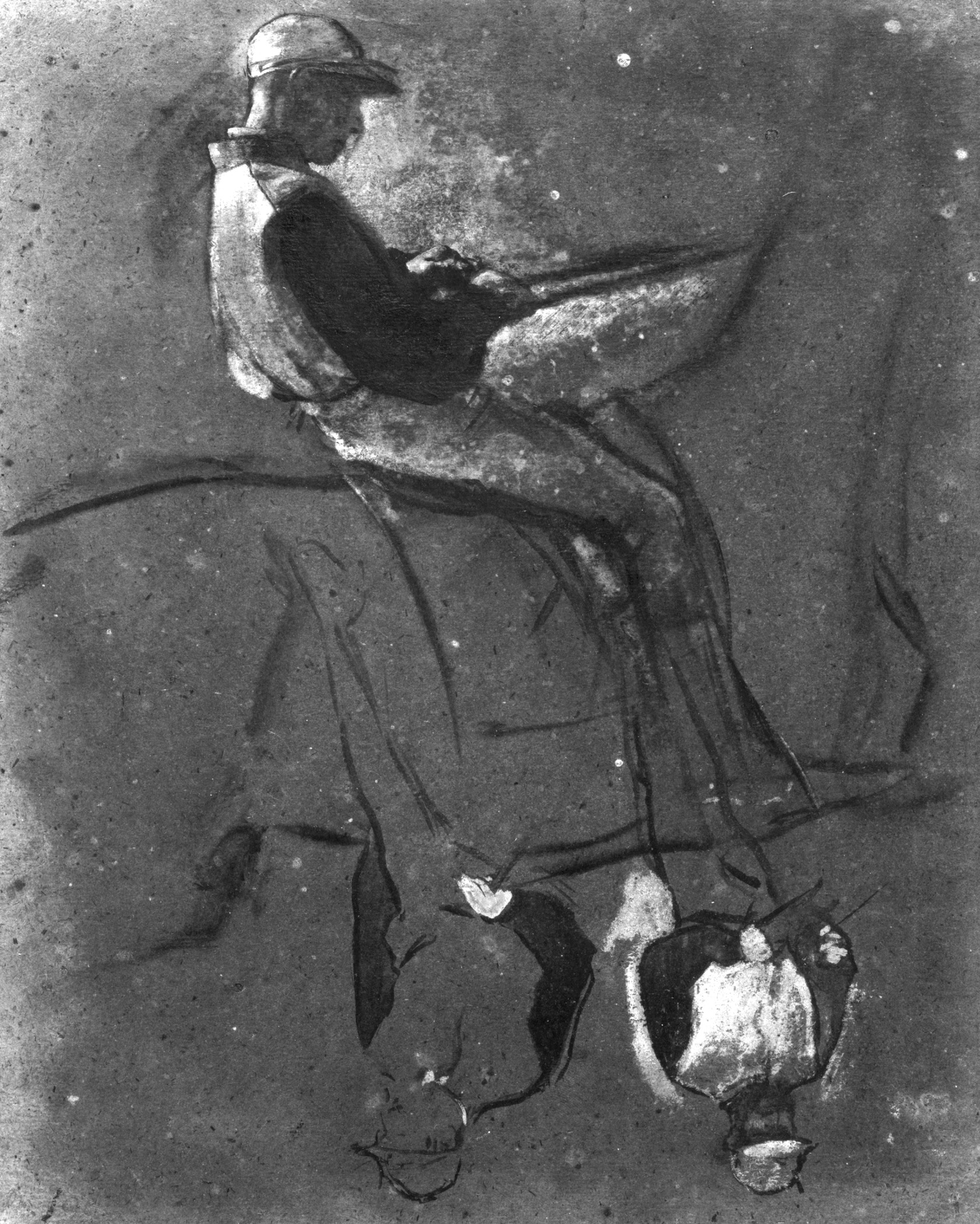 Degas - Three Mounted Jockeys Oil on brown paper 30.5 X 24 cm Stolen from Isabella Stewart Gardner Museum;Other information: This file was provided by the Federal Bureau of Investigation to assist in the case of the Isabella Stewart Gardner Museum theft.